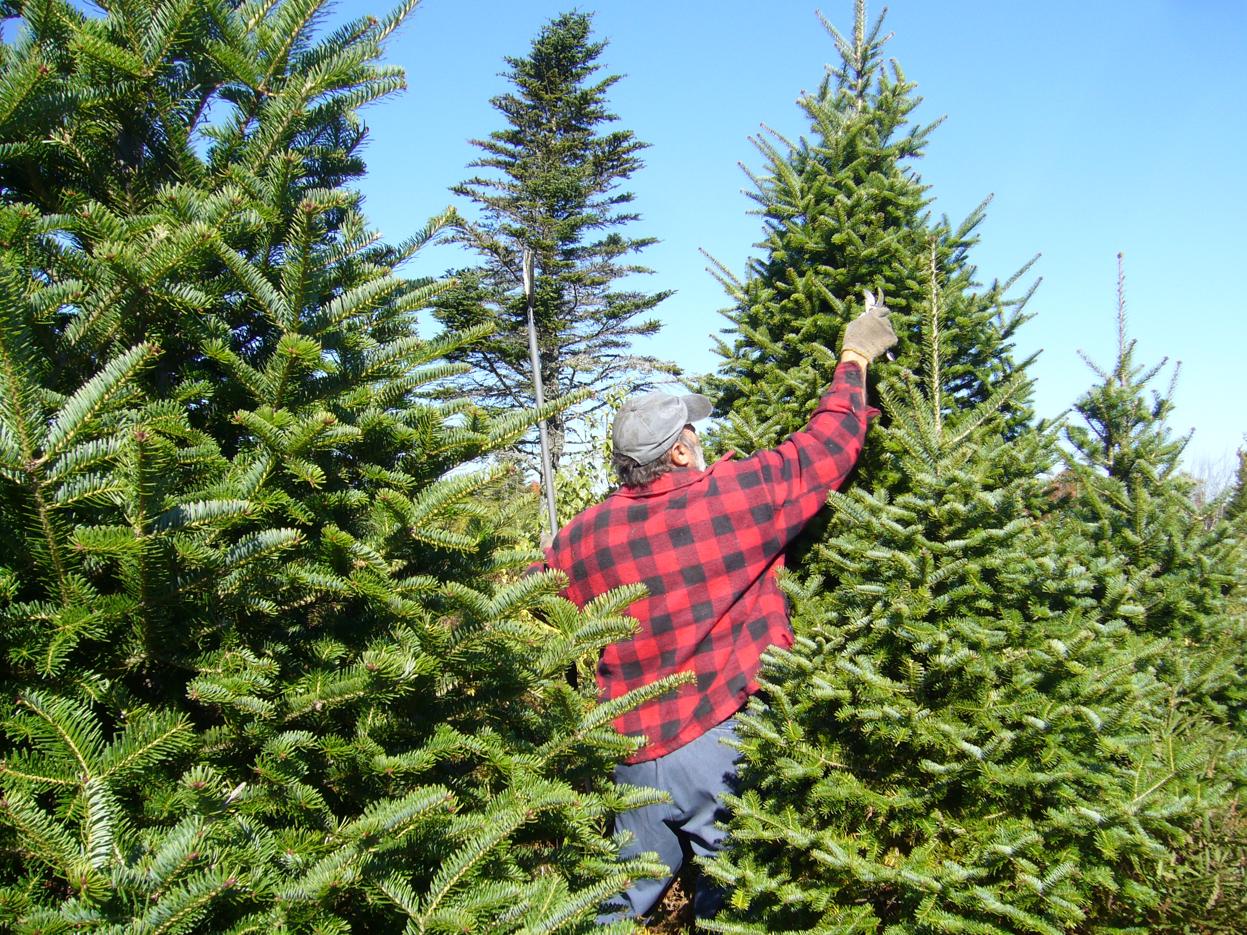 A Waterloo resident prunes trees in October, west Waterloo, Nova Scotia. The tree must have "three frosts" to stabilize the needles before cutting, hauling, baling, trucking, retailing, and finally dressing the tree in some New England or Puerto Rican home. Picture taken by Blake Wile, October 17, 2007. Image appears in article "Waterloo, Nova Scotia." Category:Christmas images Summary A Waterloo resident prunes trees in October, west Waterloo, Nova Scotia. The tree must have "three frosts" to stabilize the needles before cutting, hauling, baling, trucking, retailing, and finally dressing the tree in some New England or Puerto Rican home. Picture taken by Blake Wile, October 17, 2007. Image appears in article "Waterloo, Nova Scotia."